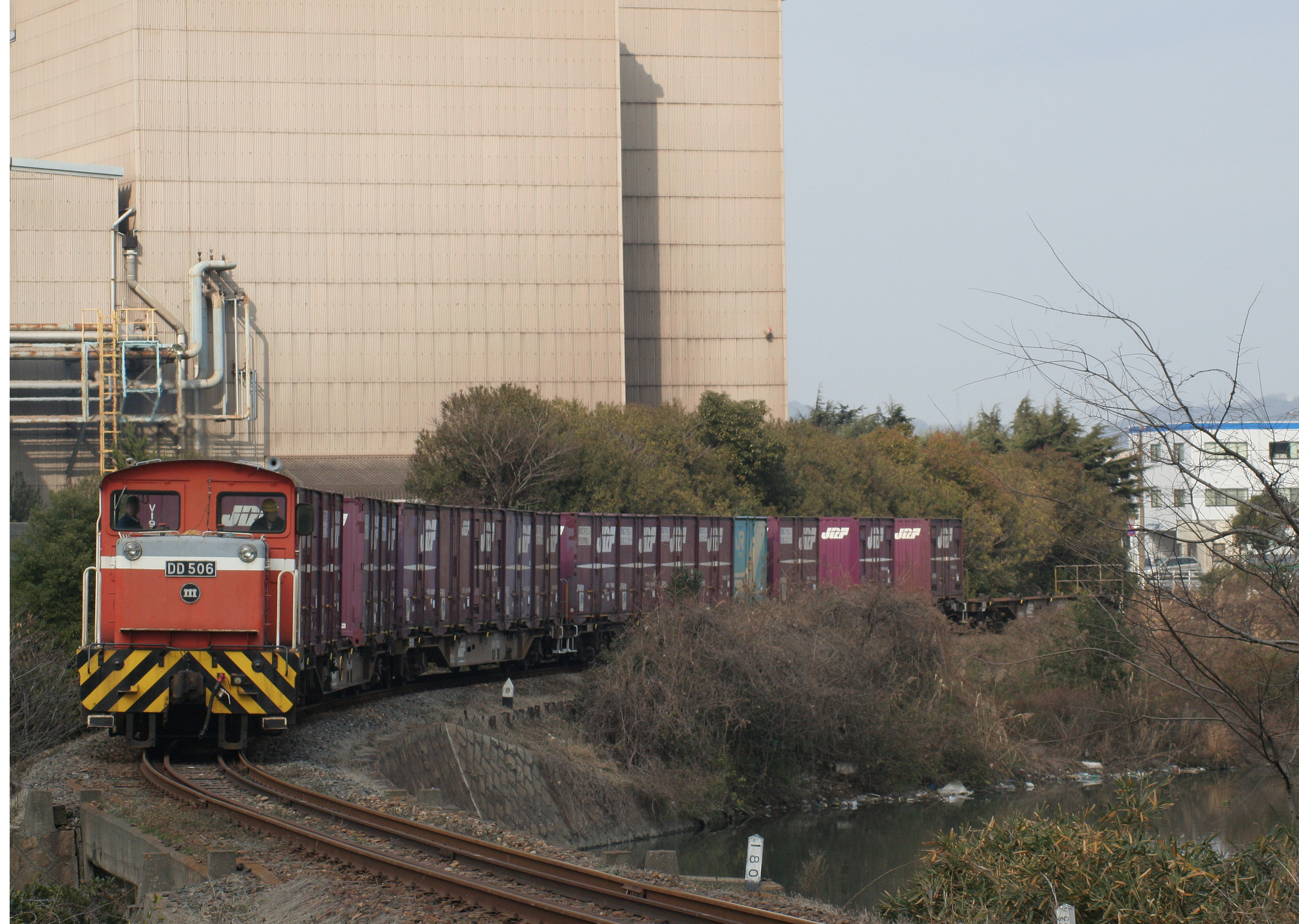 Mizushima Rinkai Railway type DD506